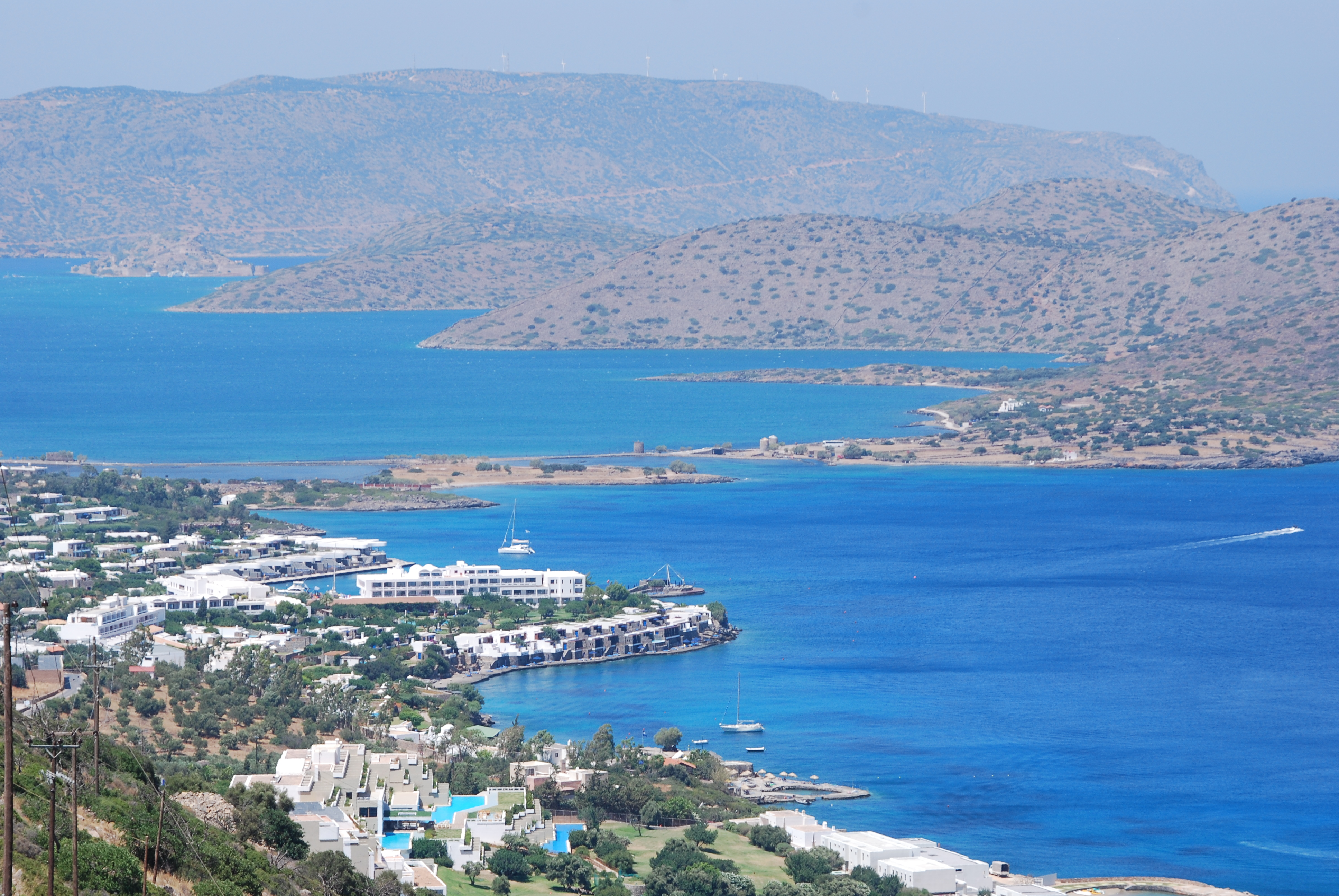 Elounda (Greek: Ελούντα) is a small fishing town on the bay of Elounda, on the northern coast of the island of Crete, Greece.